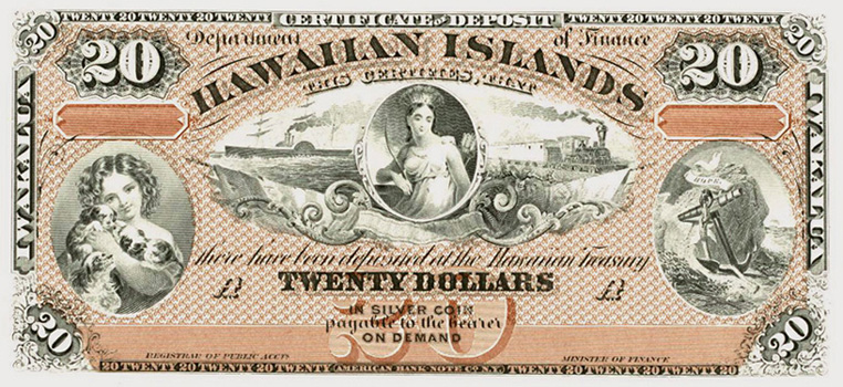 Hawaiian Islands Banknote for 20 silver dollars, from era of Hawaiian independence.